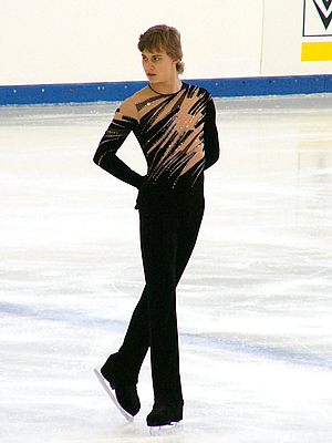 Alexander Uspenski during his free skate at the 2004 Junior Grand Prix event in Germany